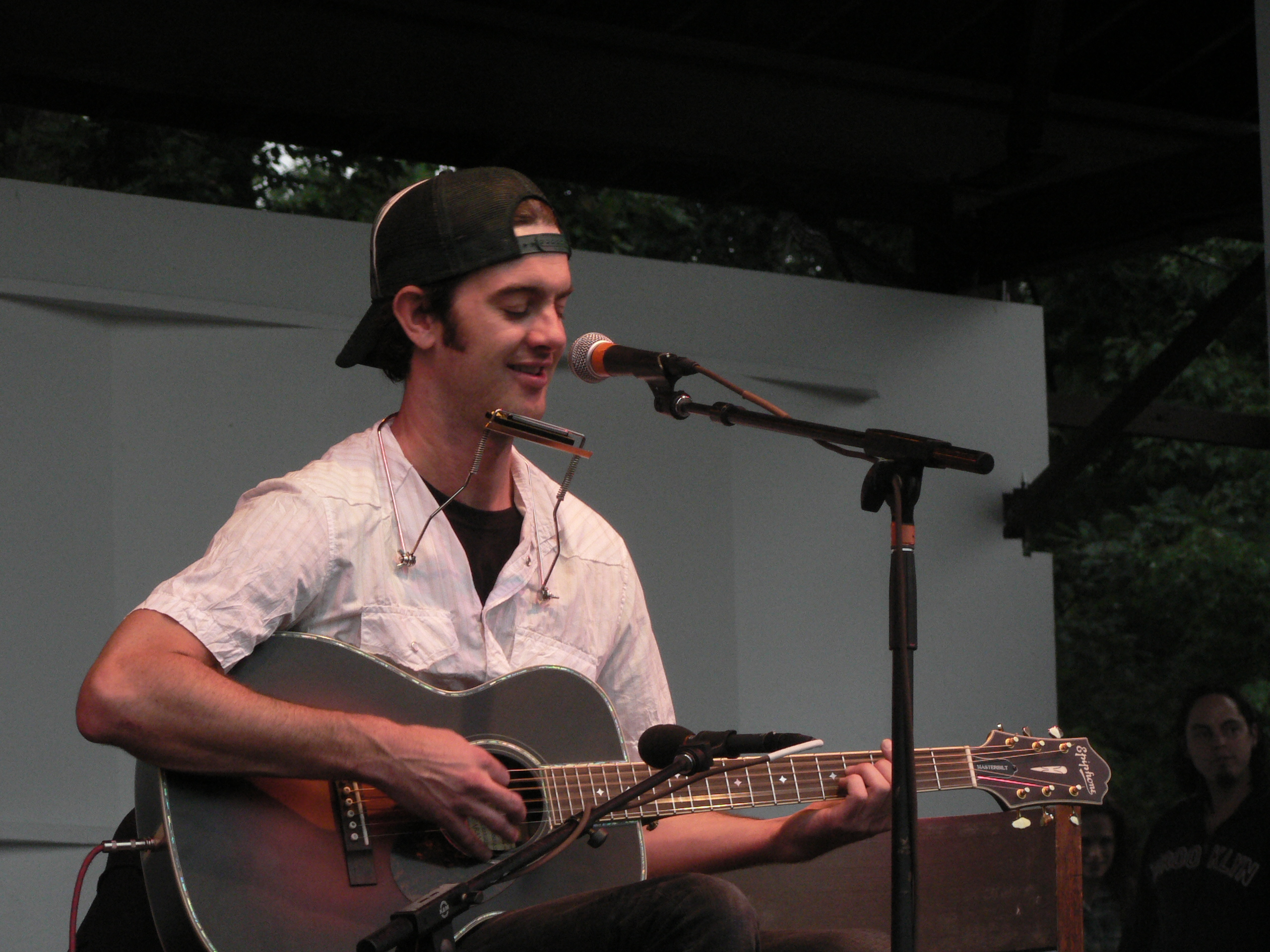 G. Love I can not wait until G Love and Special Sauce come back to Pittsburgh, He is from Philly but he's got to love Pittsburgh after the love they crowd showed him for just 6 songs. At Hartwood Acres